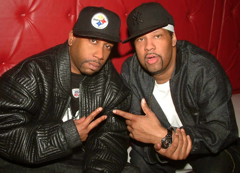 "2006-03-10 Rob Base & DJ EZ Rock at Fluid nightclub [in Toronto] - by Mick Tobyn"